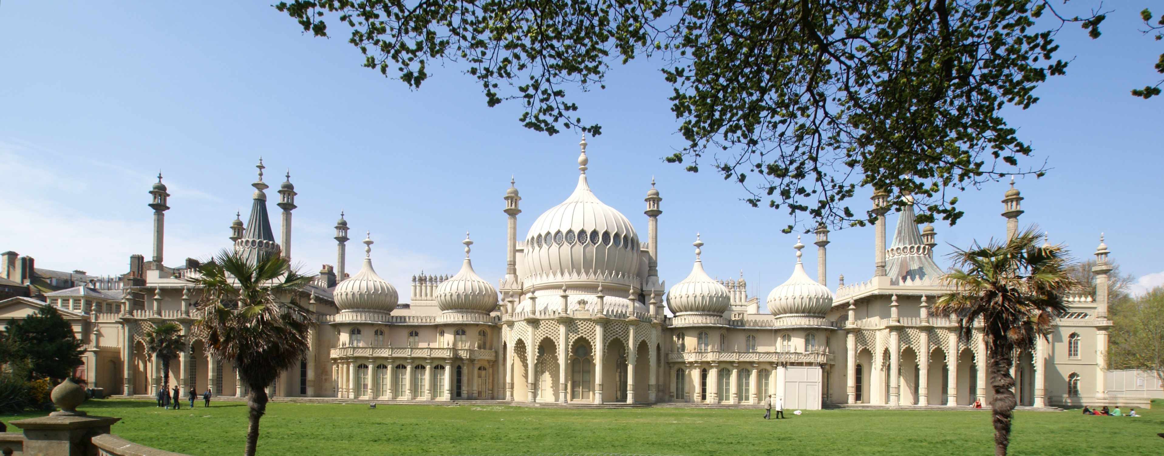 Brighton (United Kingdom): Panorama of the western front of the Royal Pavilion